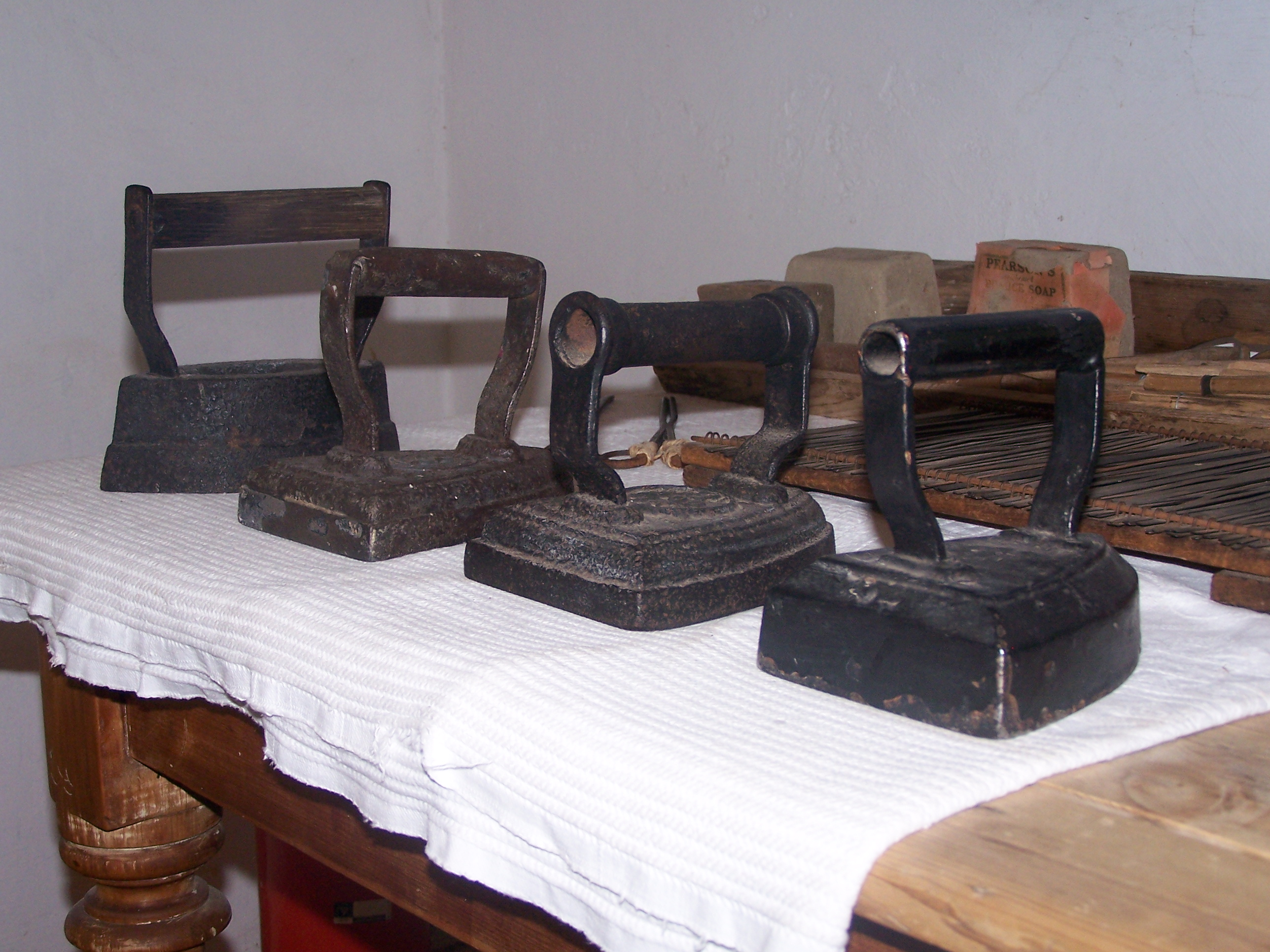 Tranby House Clothes irons, from 1800's